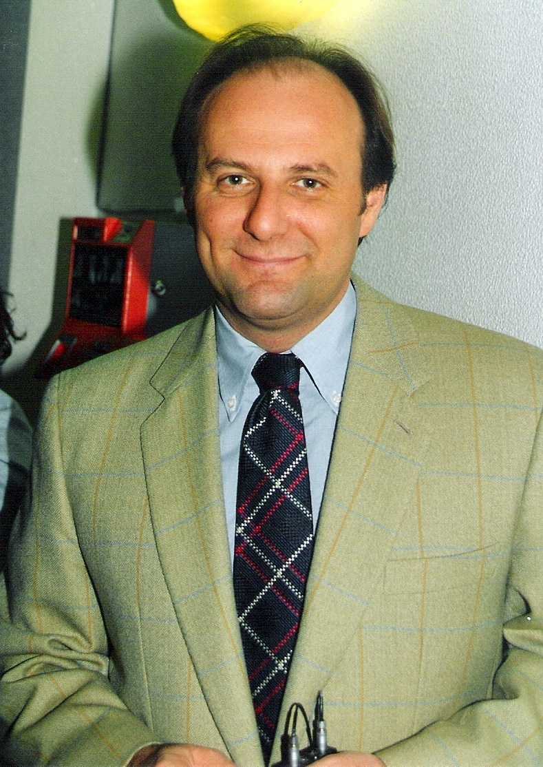 Italian television presenter Gerry Scotty